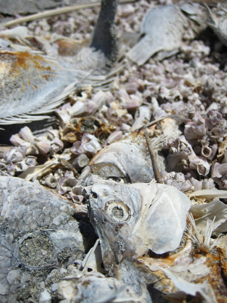 Tilapia bones along the shore of the Salton Sea, California